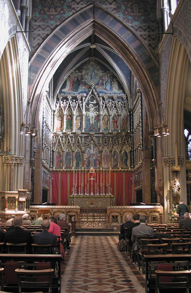 All Saints, Margaret Street, London W1 - East end, near to Marylebone, Westminster, Great Britain.